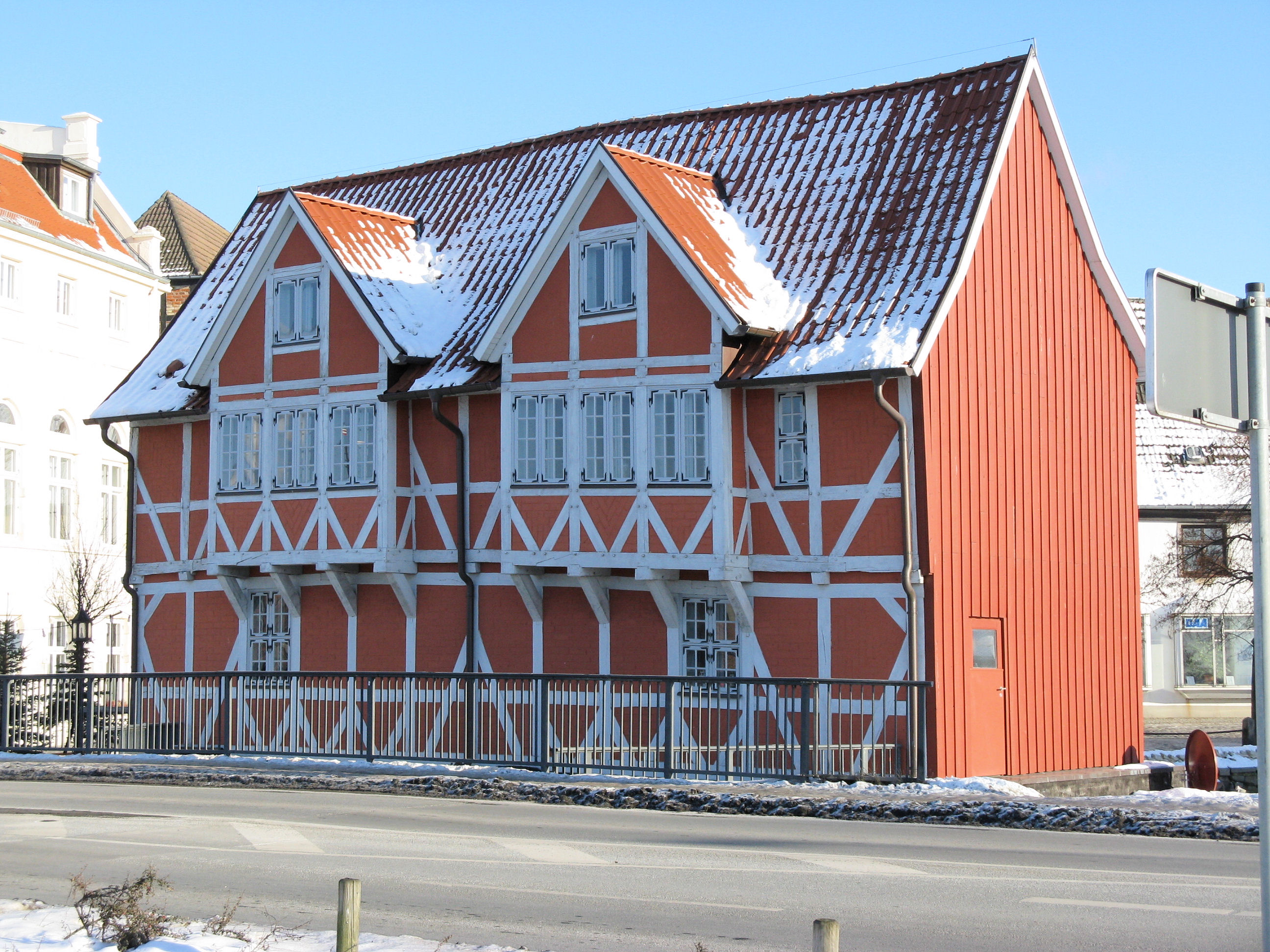 so called building Gewölbe with ditch Grube near old harbour in Wismar, Mecklenburg-Vorpommern, Germany